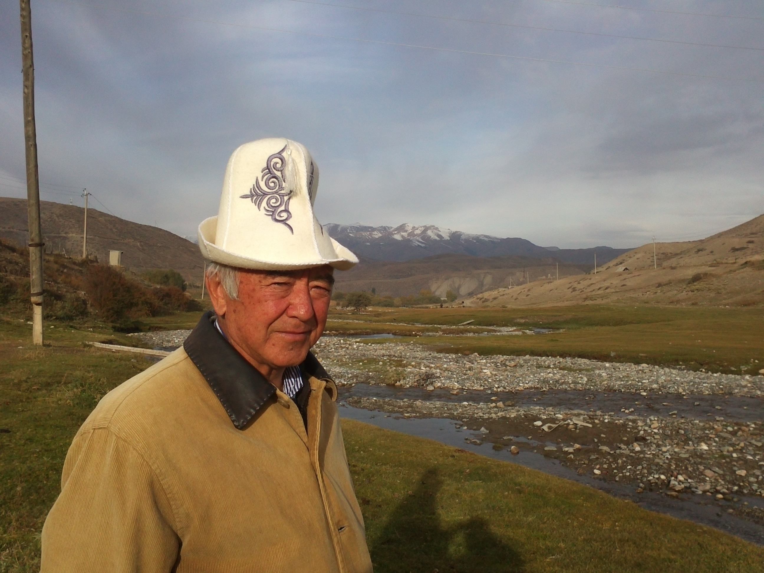 Kenesh Jusupov, a prominent Kyrgyz writer, in his home village of Echki-Bashy in On-Archa village area. Naryn district, Naryn region, Kyrgyzstan. 04 October 2012. Photo by T.Chorotegin. Кыргызча: Кыргыз эл жазуучусу, публицист Кеңеш Жусупов Эчки-Башы суусунун боюнда. Эчки-Башы кыштагы, Он-Арча айыл аймагы. Кыргызстан. 2012-жылдын 4-октябры. Т.Чоротегин тарткан сүрөт.